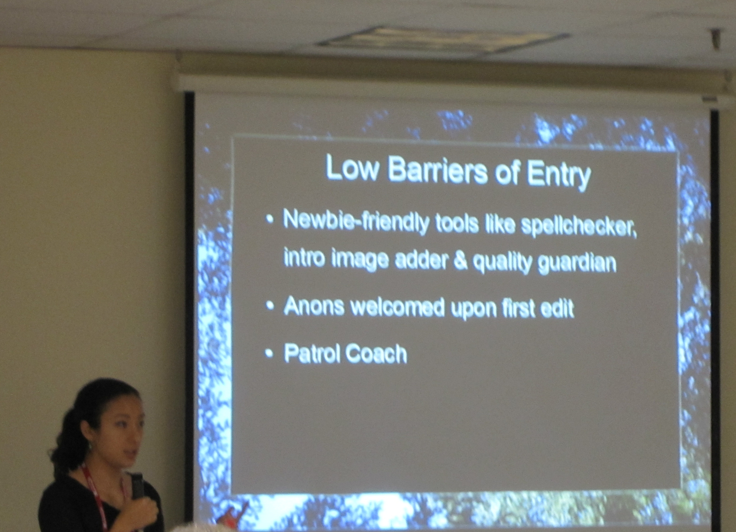 "Women on WikiHow" workshop at Wikimania 2012. Full presentation on YouTube.